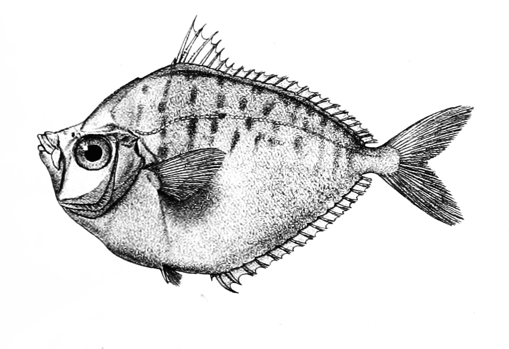 The species names / identity need verification. The original plates showed the fishes facing right and have been flipped here. Equula ruconius